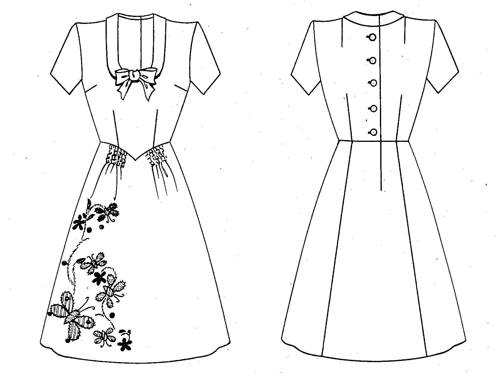 Patent drawing for a dress with smocking and flower and butterfly design by Emily Wilkens, 1944